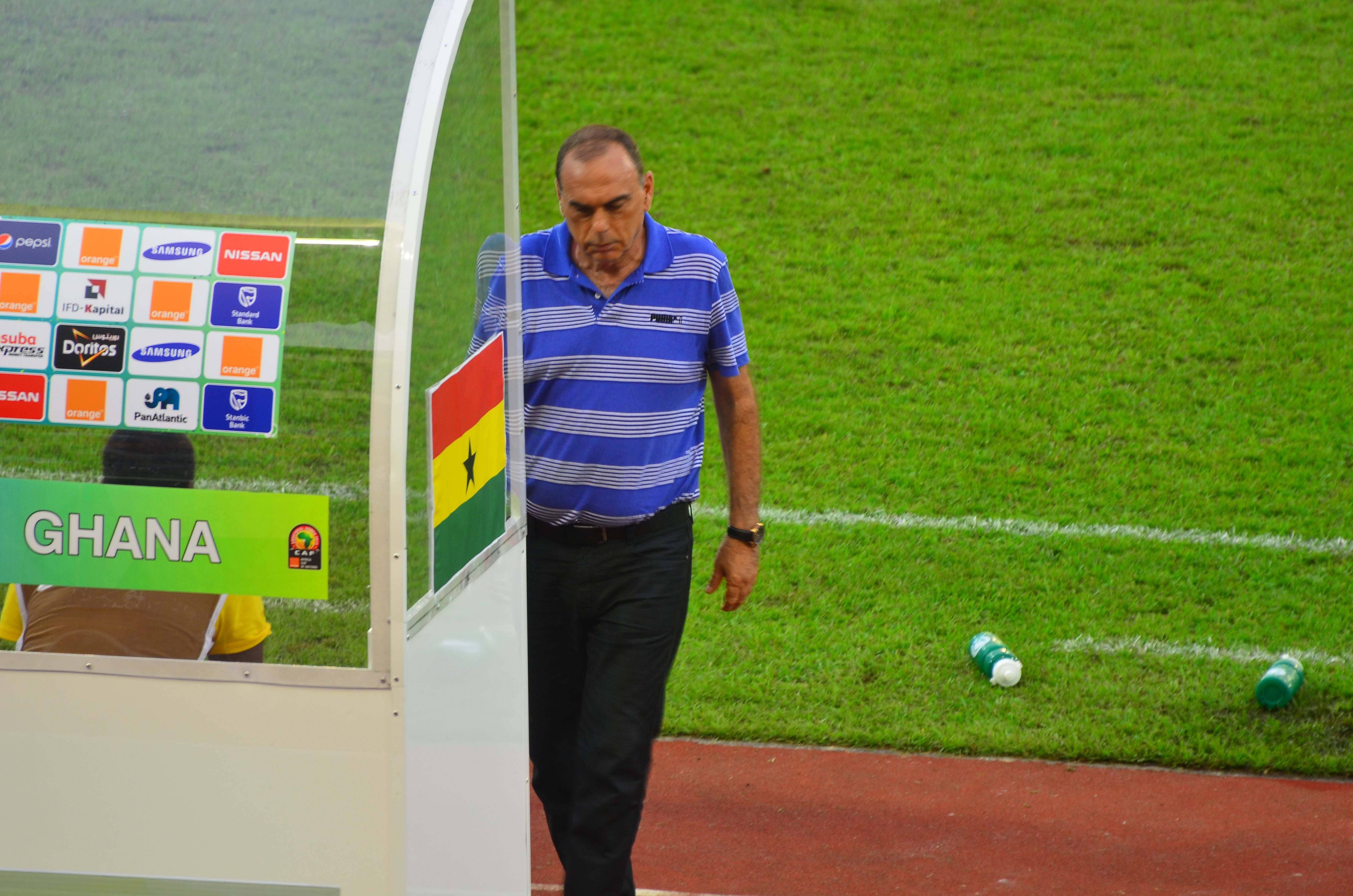 This is a picture of a soccer game (name of it is on file name).